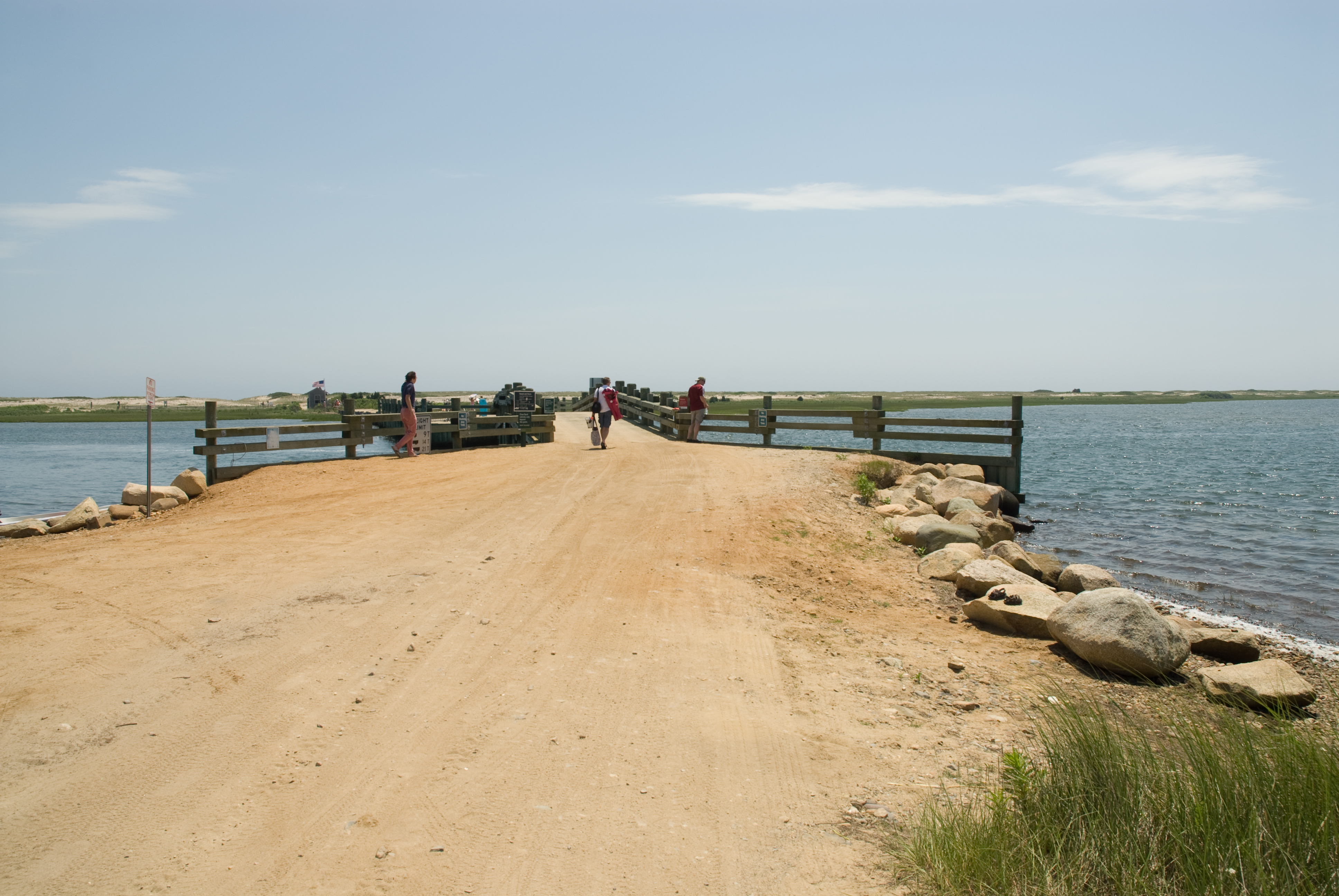 Dike Bridge, Chappaquiddick Island, Edgartown, Massachusetts